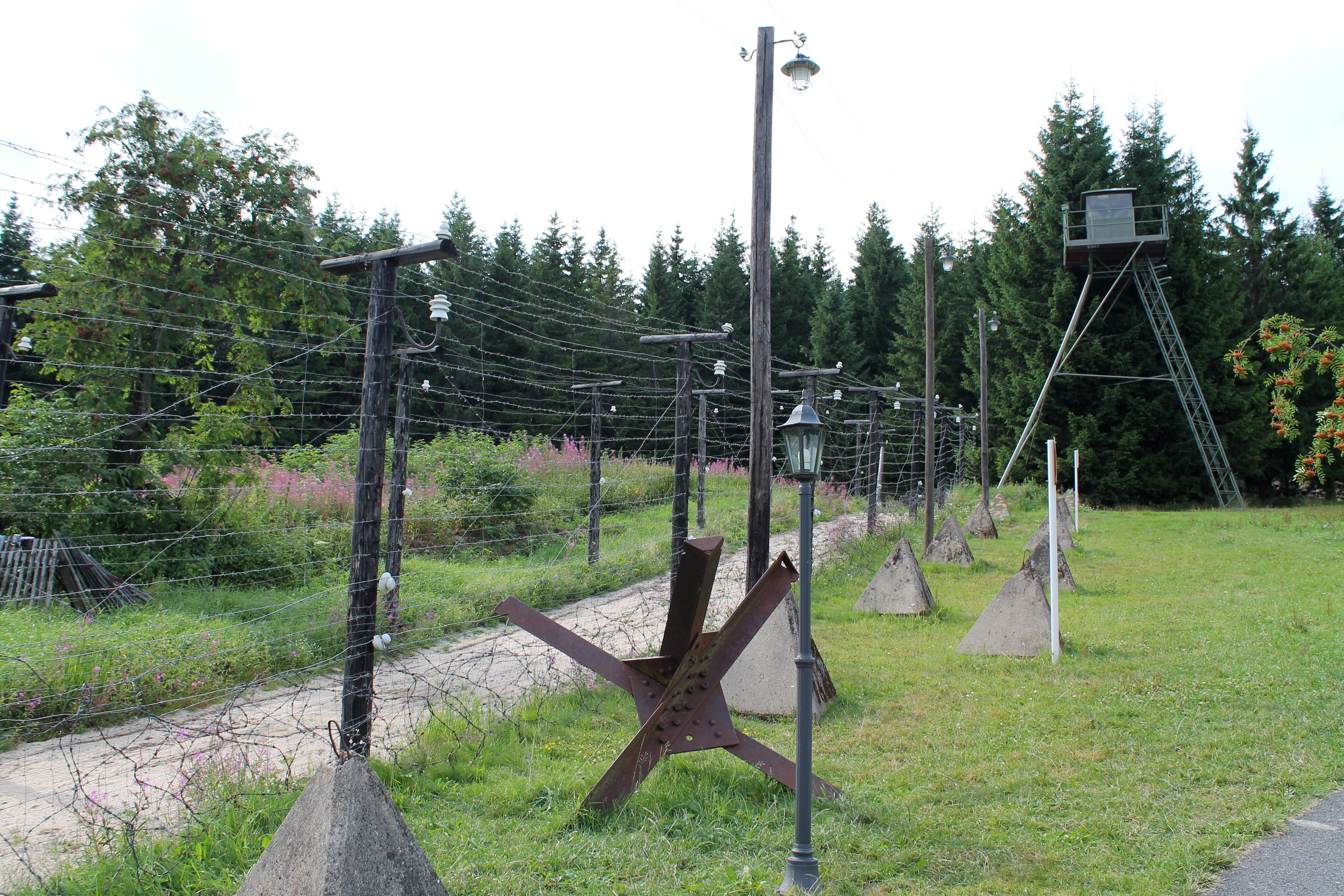 Model of Iron Curtain, Bučina, Kvilda, Prachatice District, Czech Republic